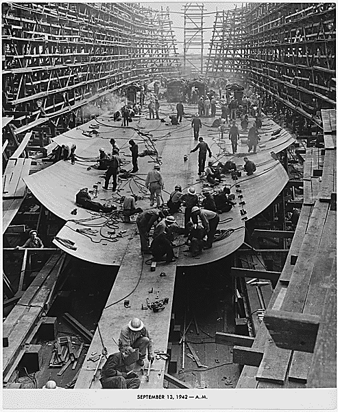 United States shipbuilding